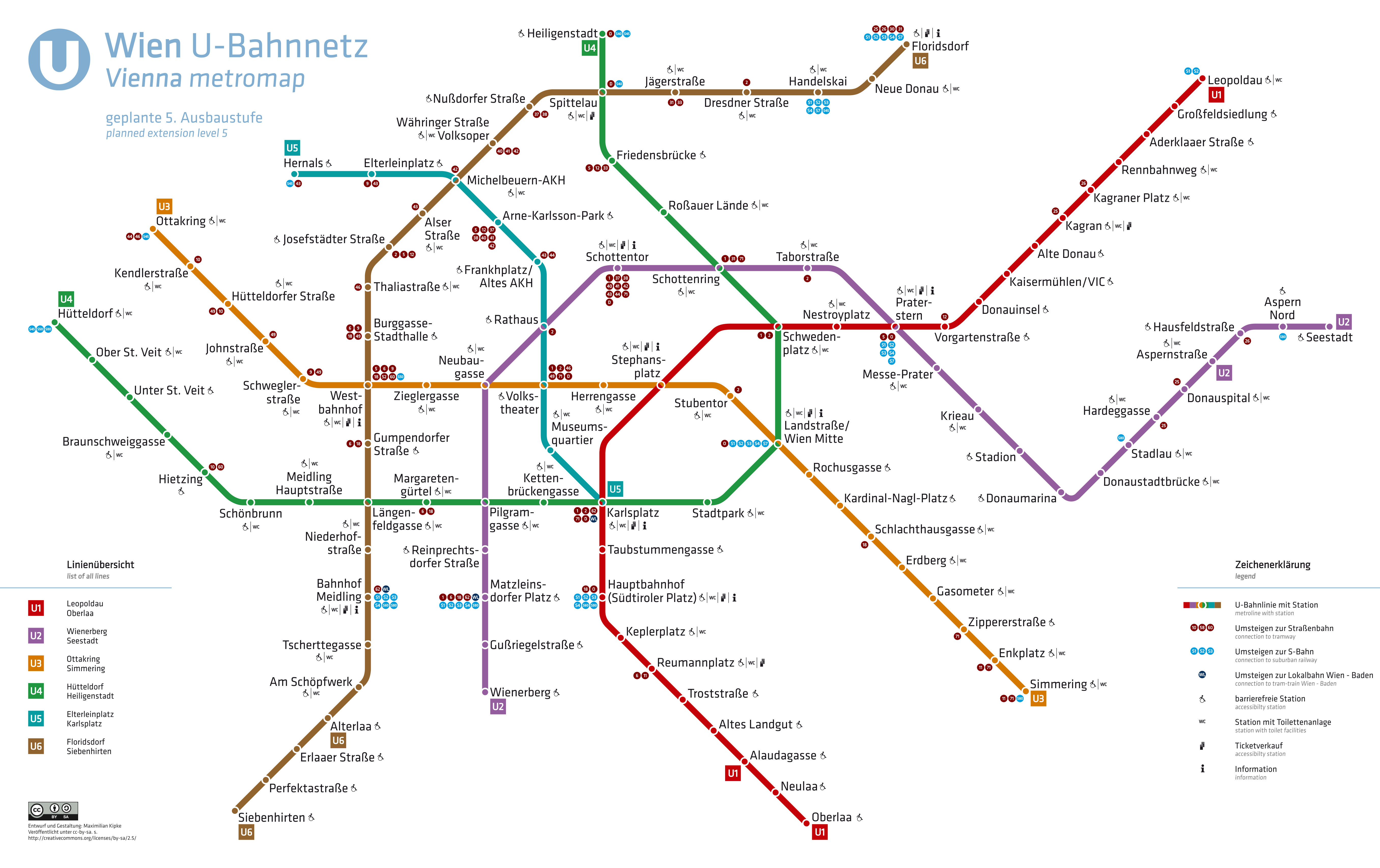 Metromap of Vienna in 2023